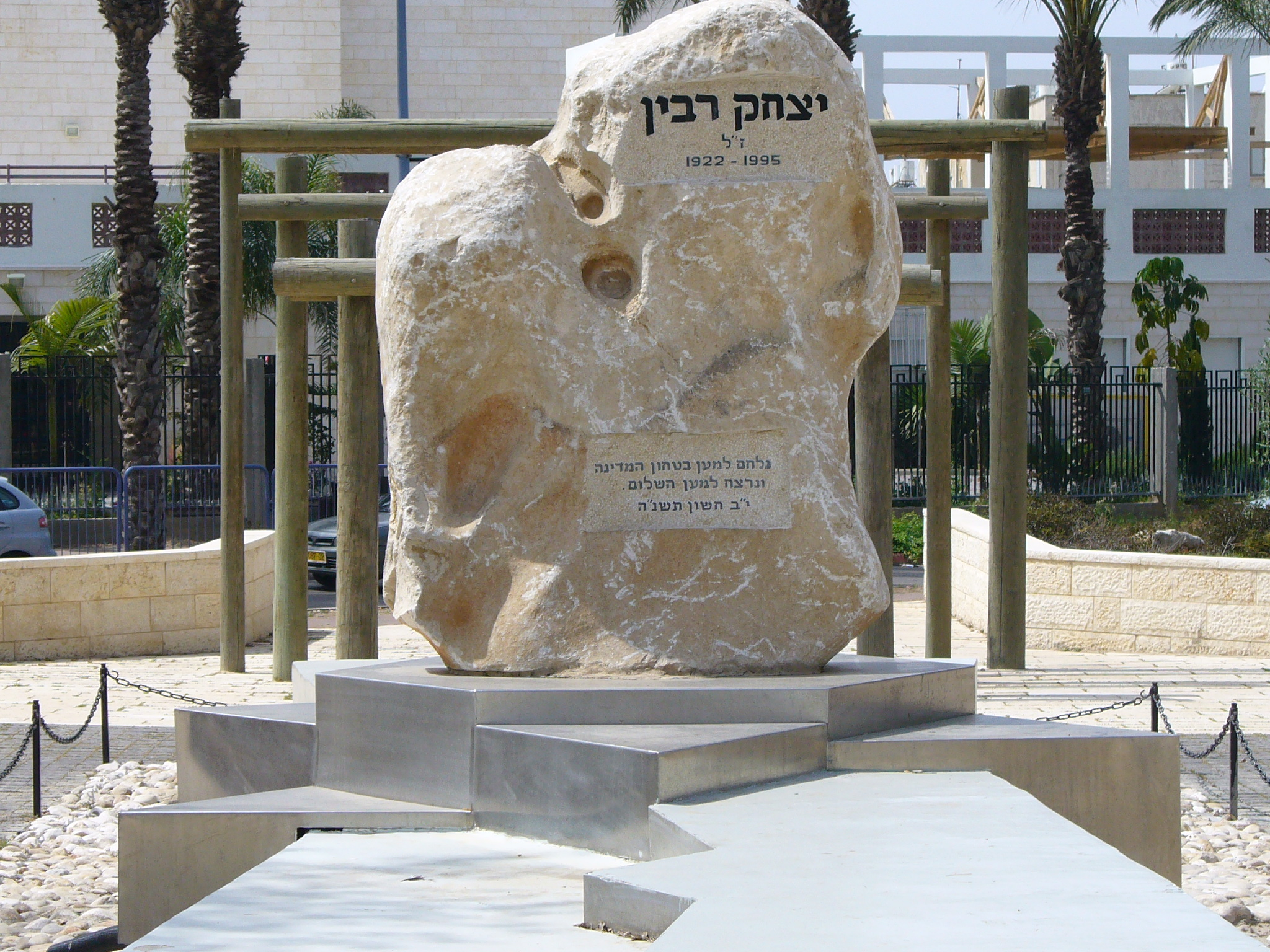 Rabin's gate for peace, Akko, Israel